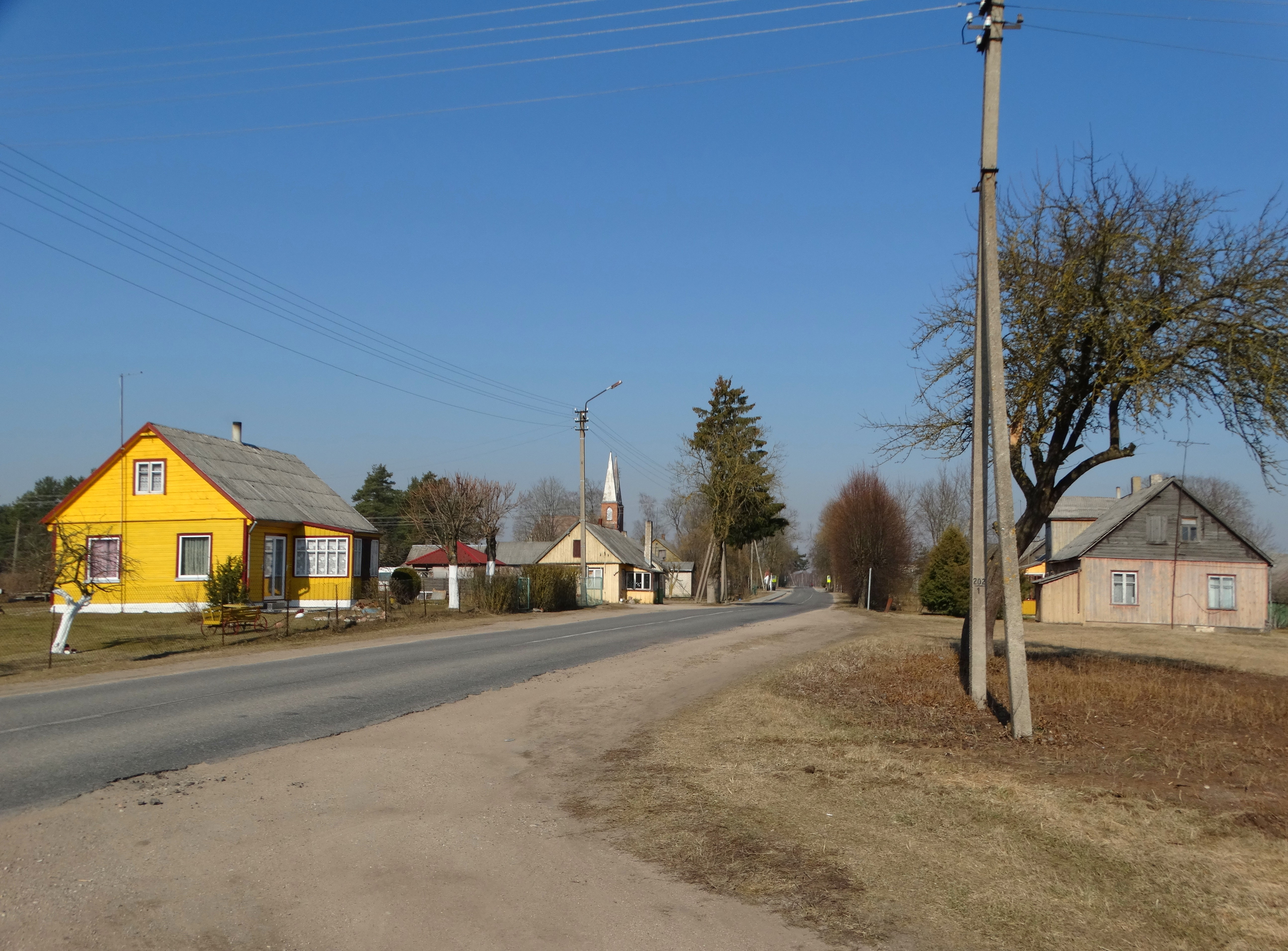 Kaunatava, Telšiai district, Lithuania